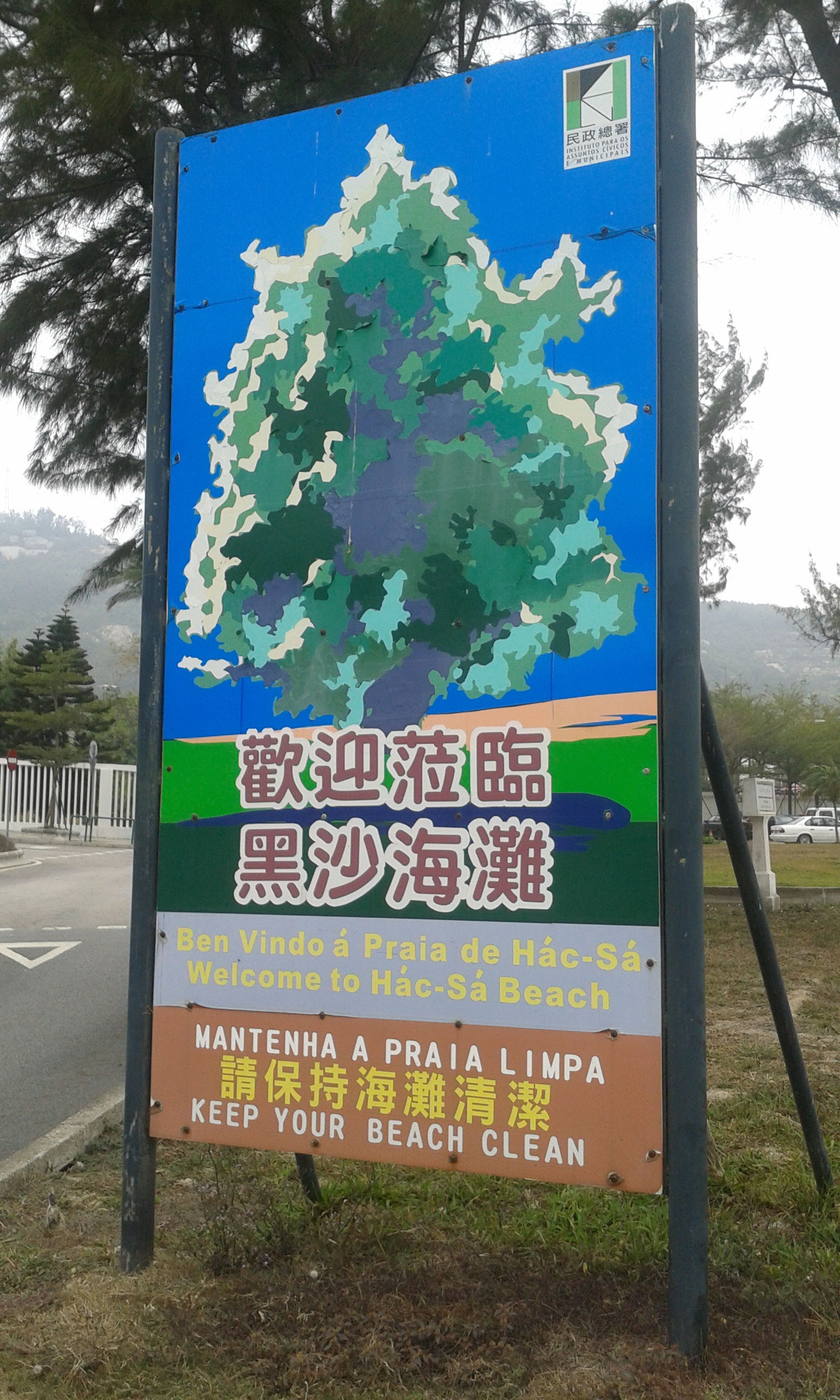 Welcome to Hac Sa Beach